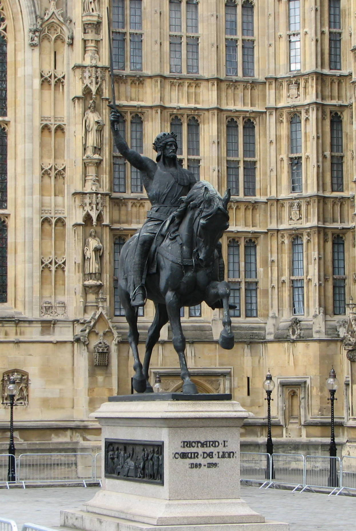 Statue of Richard I of England, Palace of Westminster, London, England